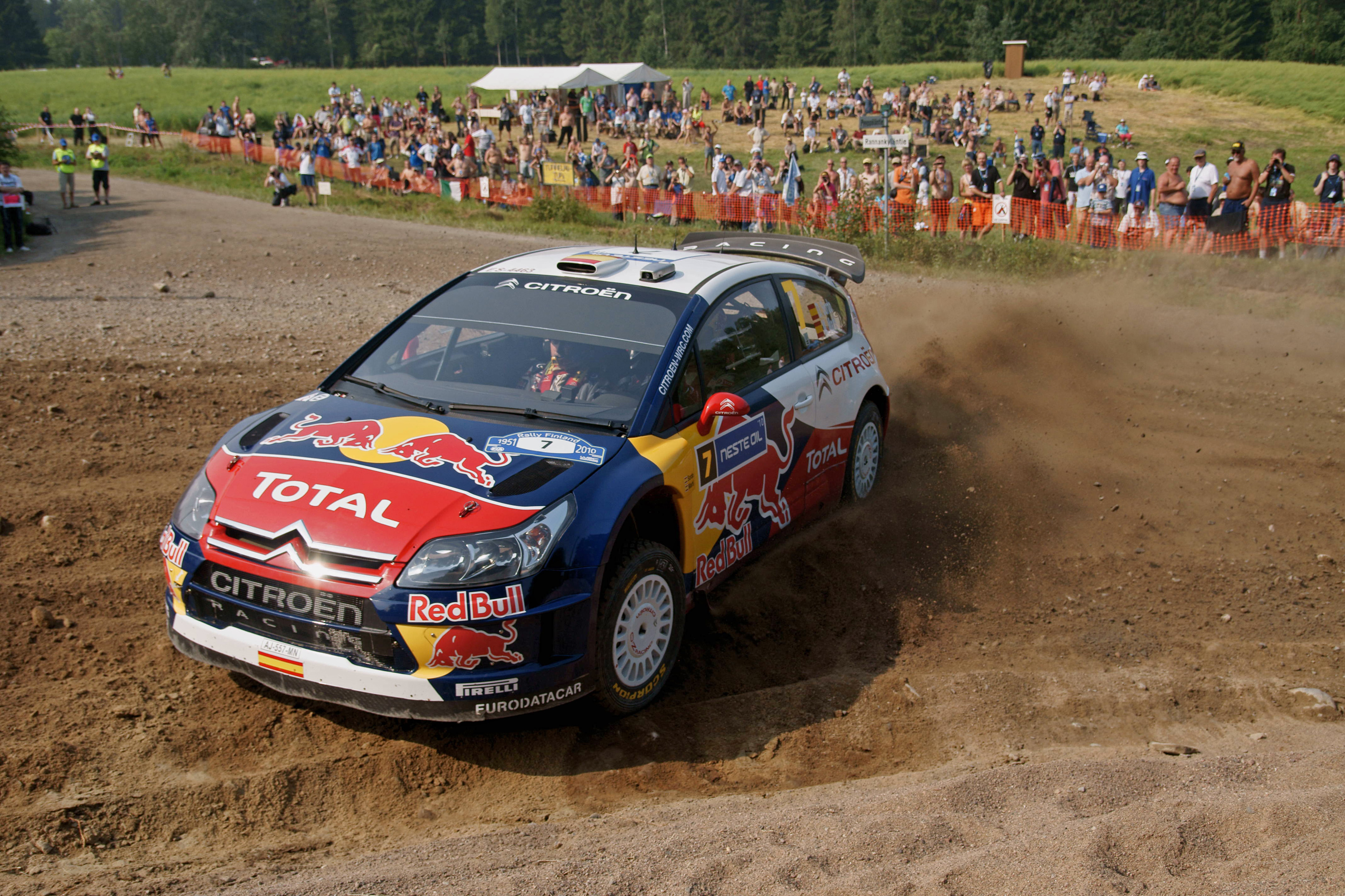 Dani Sordo driving at Rannakylä shakedown in Muurame.